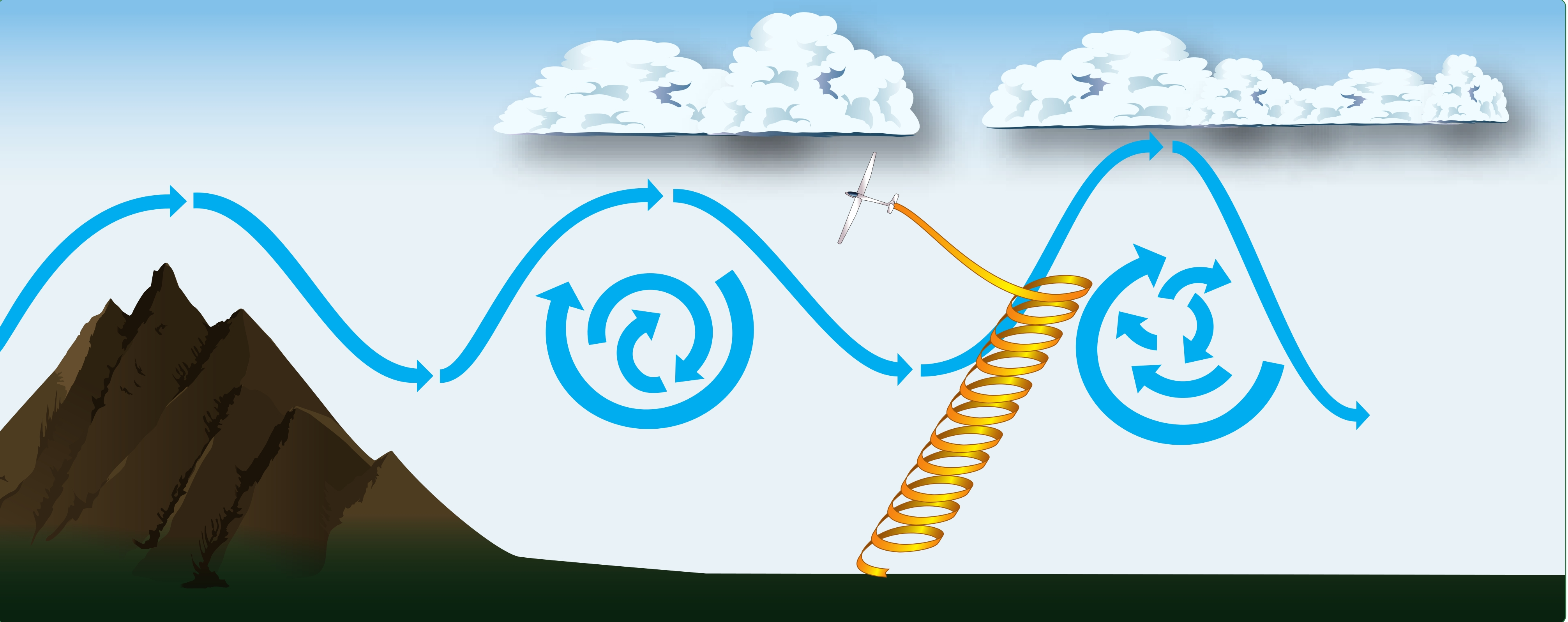 Thermalling in a rotor